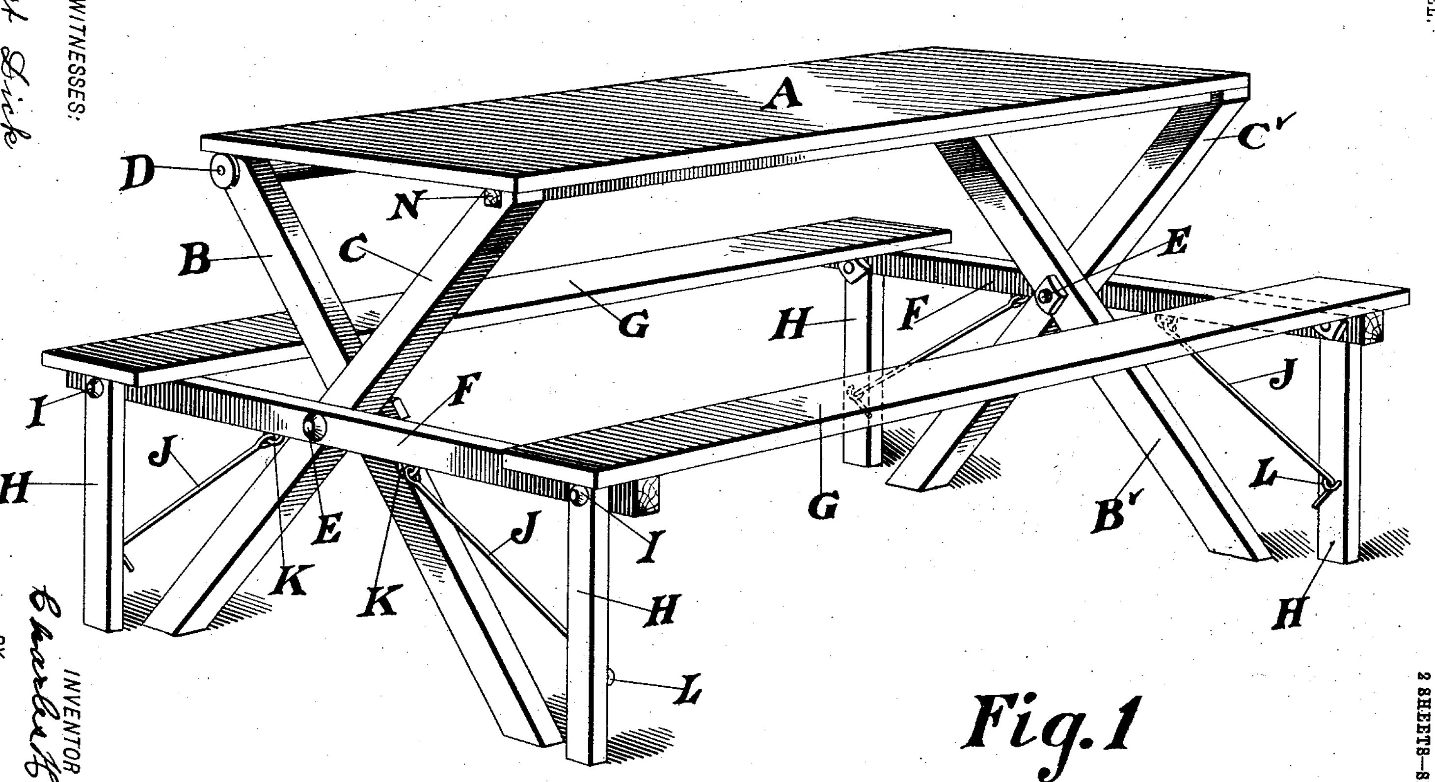 Fig. 1 from Charles H. Nielsen's 1903 collapsible picnic table patent application, available as File:US patent 769354.pdf.